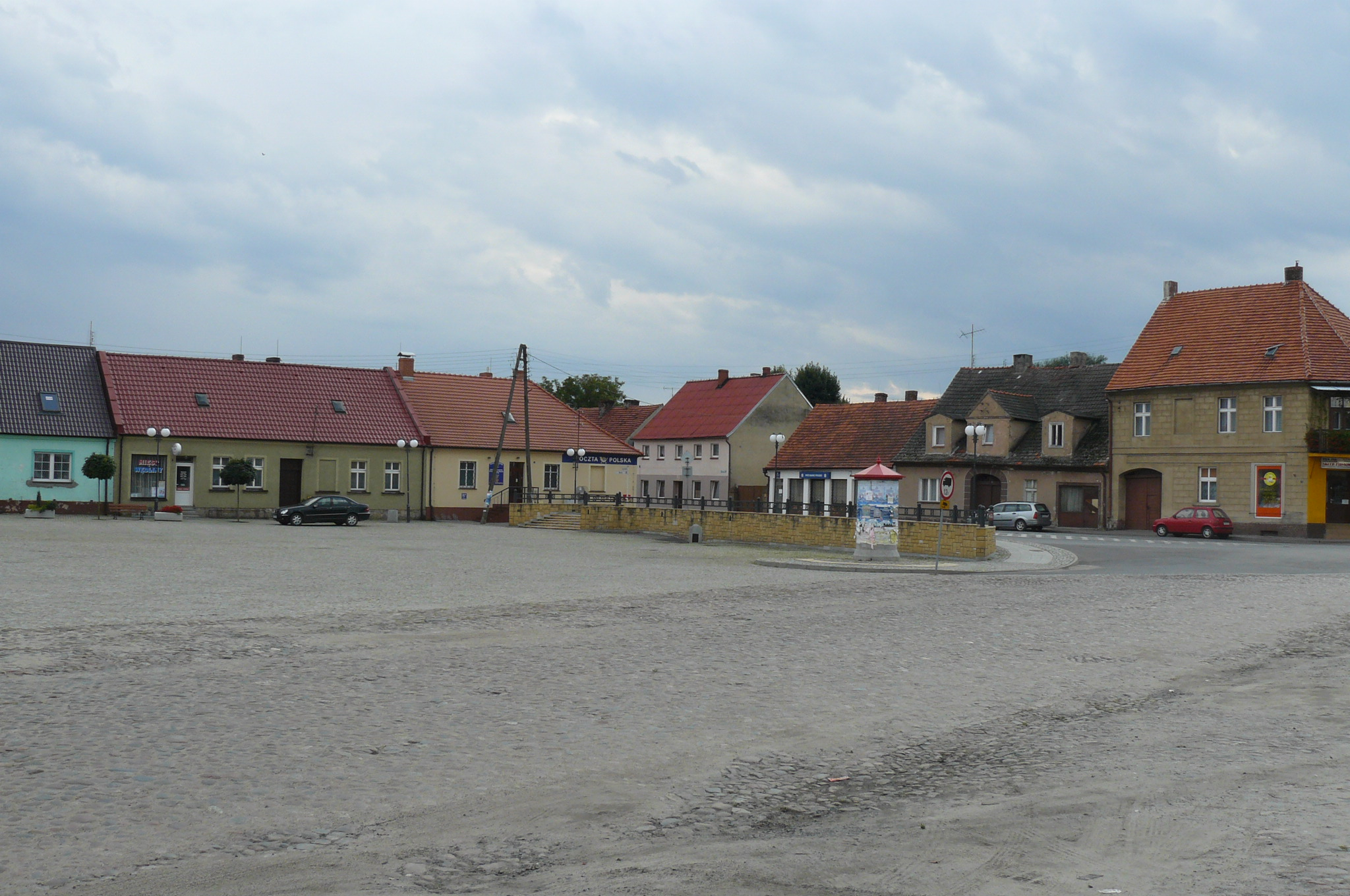 Nowe Miasto nad Warta - old square.